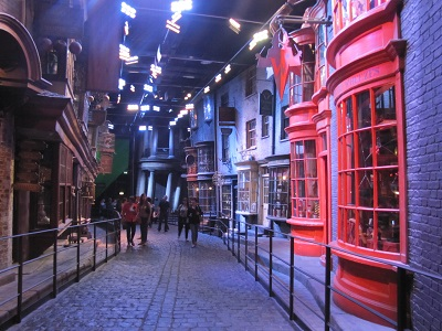 استودیو برادران وارنر (استودیو هری پاتر)